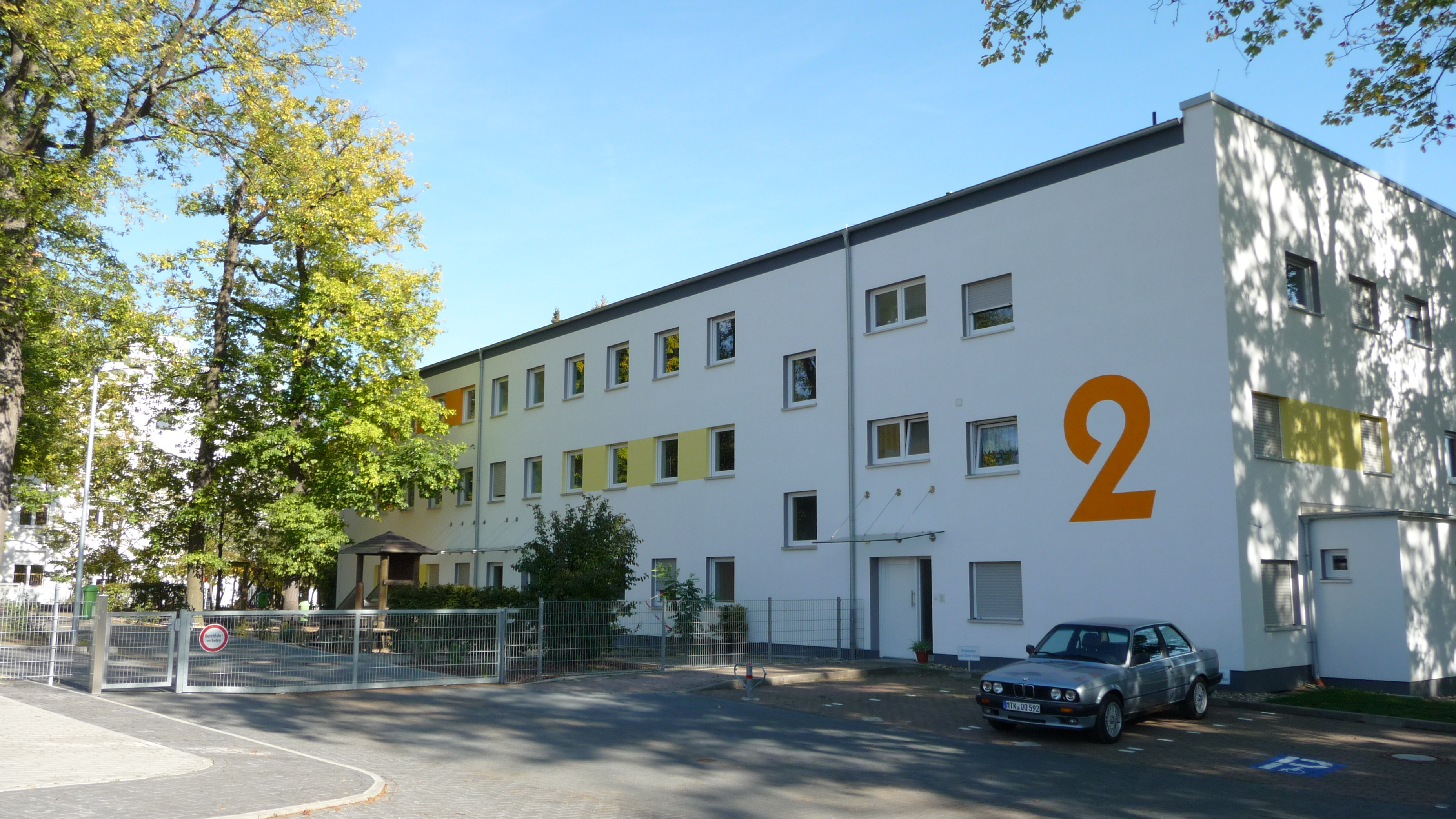 Montessori-Zentrum Hofheim